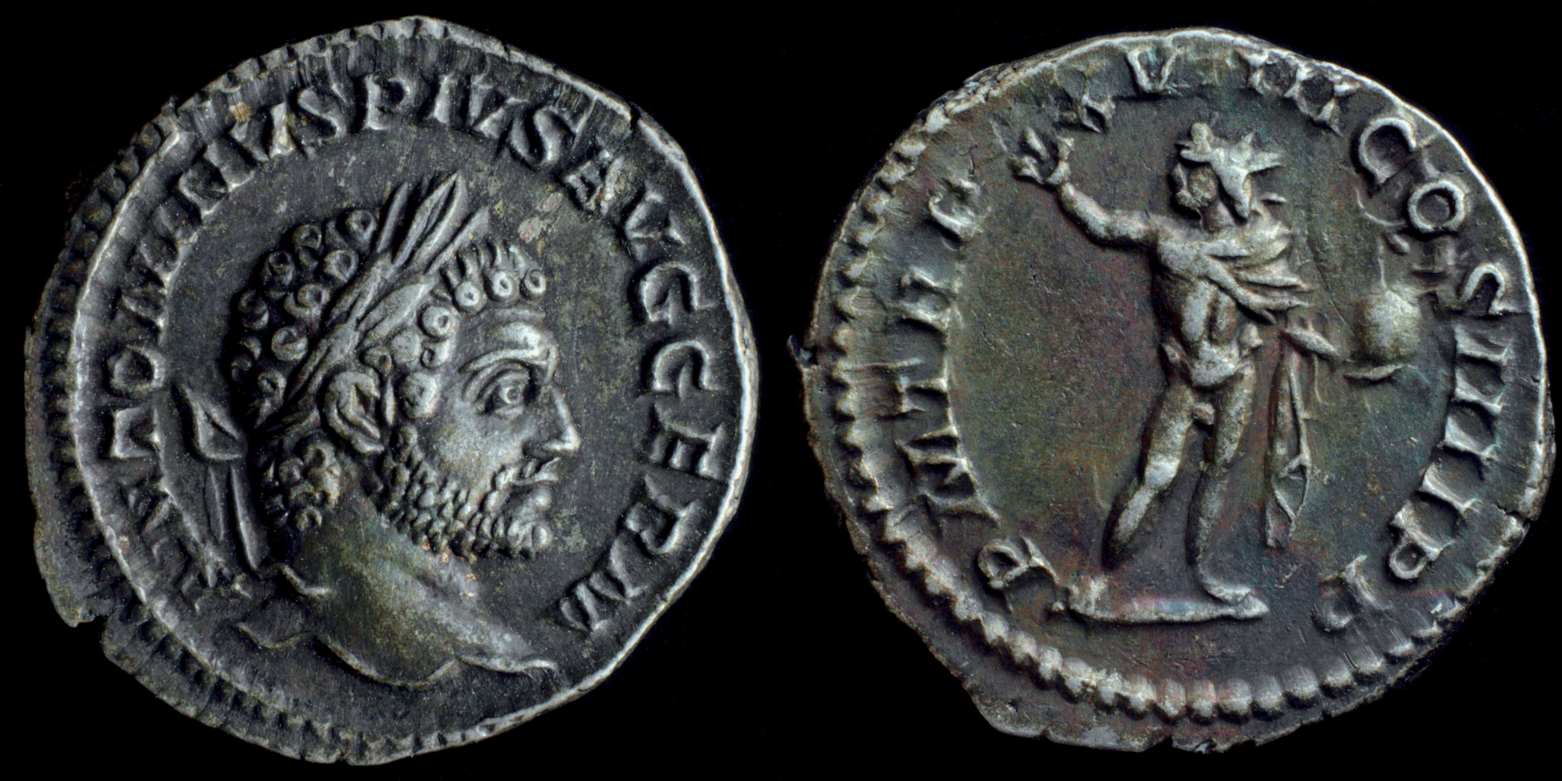 Silver denarius of Caracalla struck in Rome 216 AD obverse: emperor's laureate head right ANTONINVS PIVS AVG GERM reverse: Sol standing half right, head left, wearing chalmys, raising hand, holding globe P M TR P__XVIIII COS IIII P P reference: RIC 281b; RSC 359 weight: 2,75g